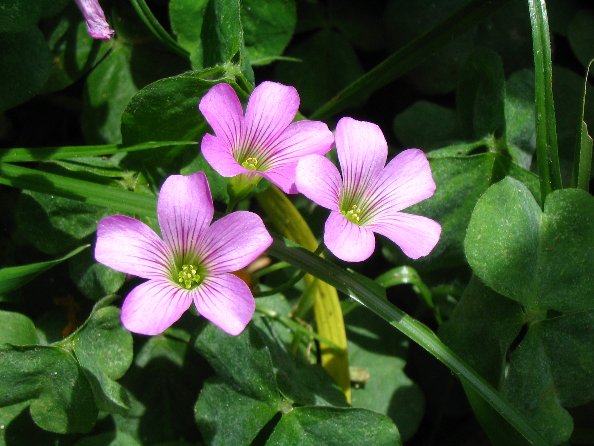 Photo of Ageratum conyzoides